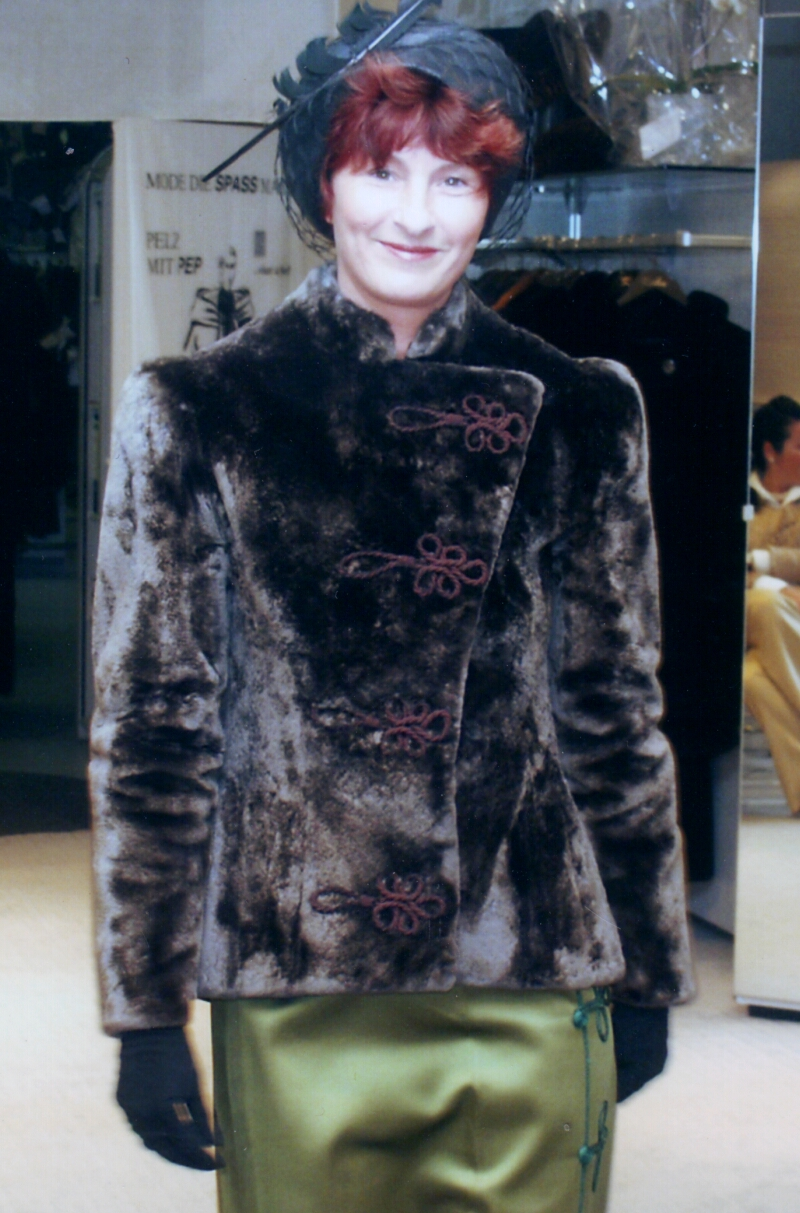 Historian mole fur jacket